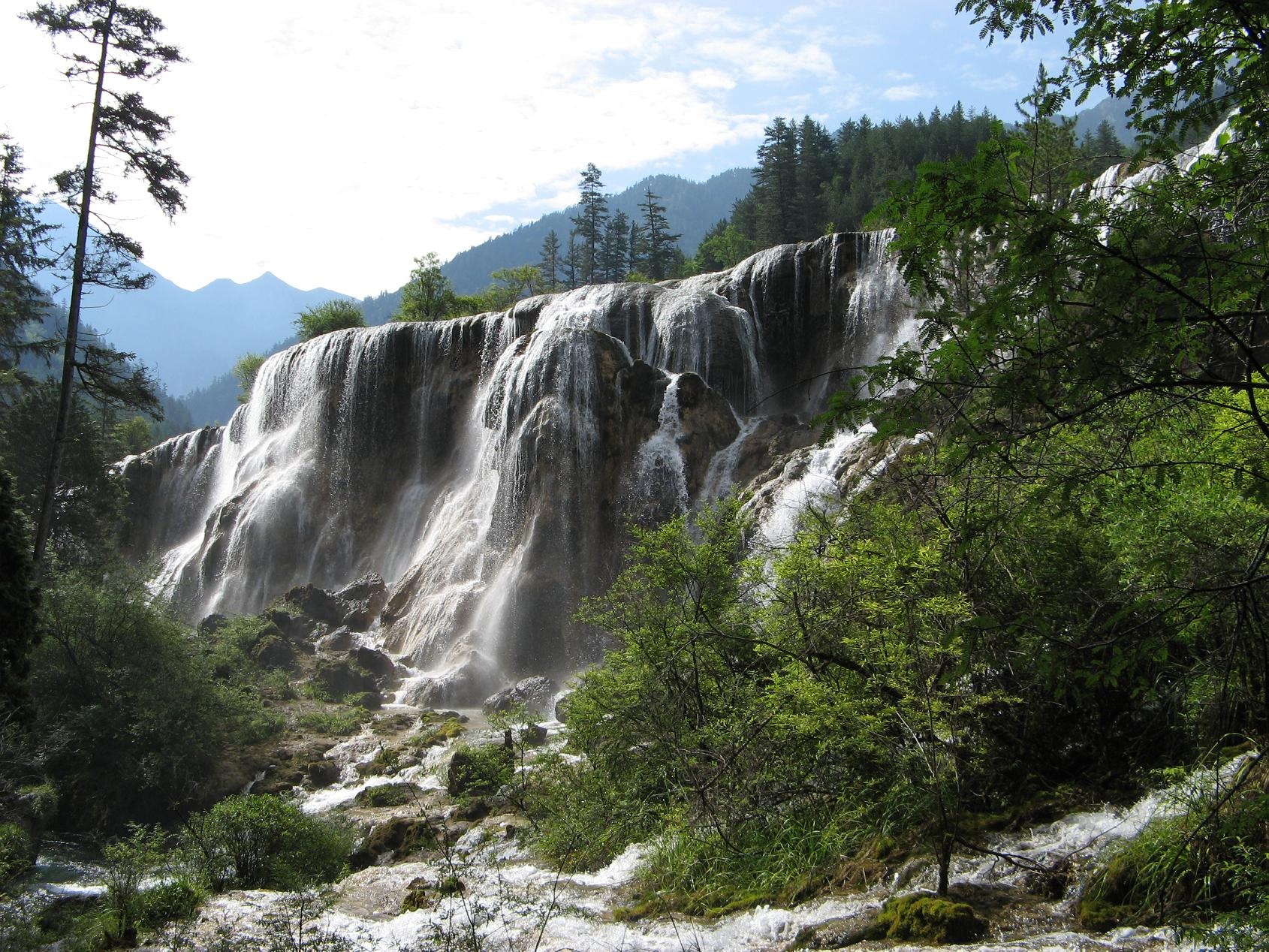 Pearl Waterfall, in Jiuzhaigou, Sichuan, China Photo by Dice, 2006.06.23